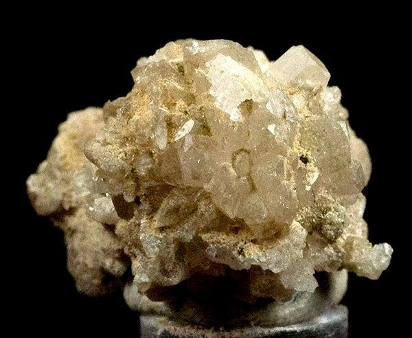 Stannomicrolite, Stokesite Locality: Urucum mine (Tim mine; Córrego do Urucum pegmatite), Galiléia, Doce valley, Minas Gerais, Southeast Region, Brazil (Locality at ) Size: 1.2 x 1.1 x 0.9 cm. An excellent thumbnail of rarities from the Corrego do Urucum Pegmatite of Brazil. A rich dusting of yellowish-brown stannomicrolite microcrystals coats glassy stokesite crystals. Stannomicrolite (a hydroxide) is the tin-rich member of the microlite subgroup of the pyrochlore group of minerals and is known from only three localities worldwide. Stokesite is a very rare calcium, tin silicate. Older material.